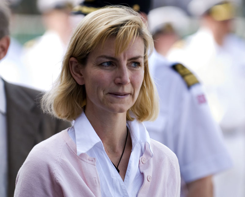 The danish minister for development cooperation mrs. Ulla Tørnæs, at a parade in Mombasa, where the danish navy (F357 Thetis) took over the task of protecting World Food Programme ships off the Horn of Africa against piracy, from the French Navy (F795 Cdt. Ducuing).